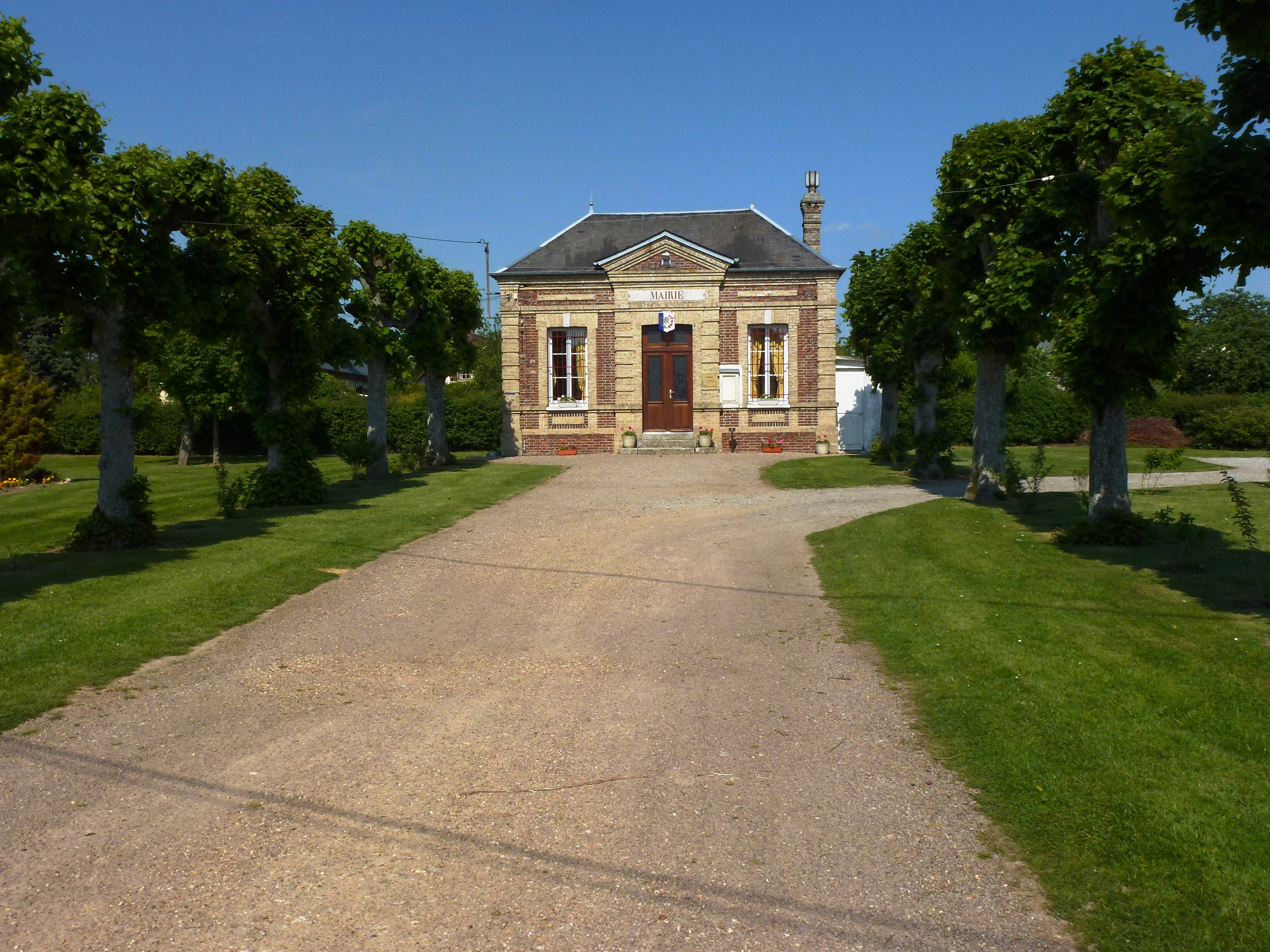 Berville-la-Campagne (Eure, Fr) mairie